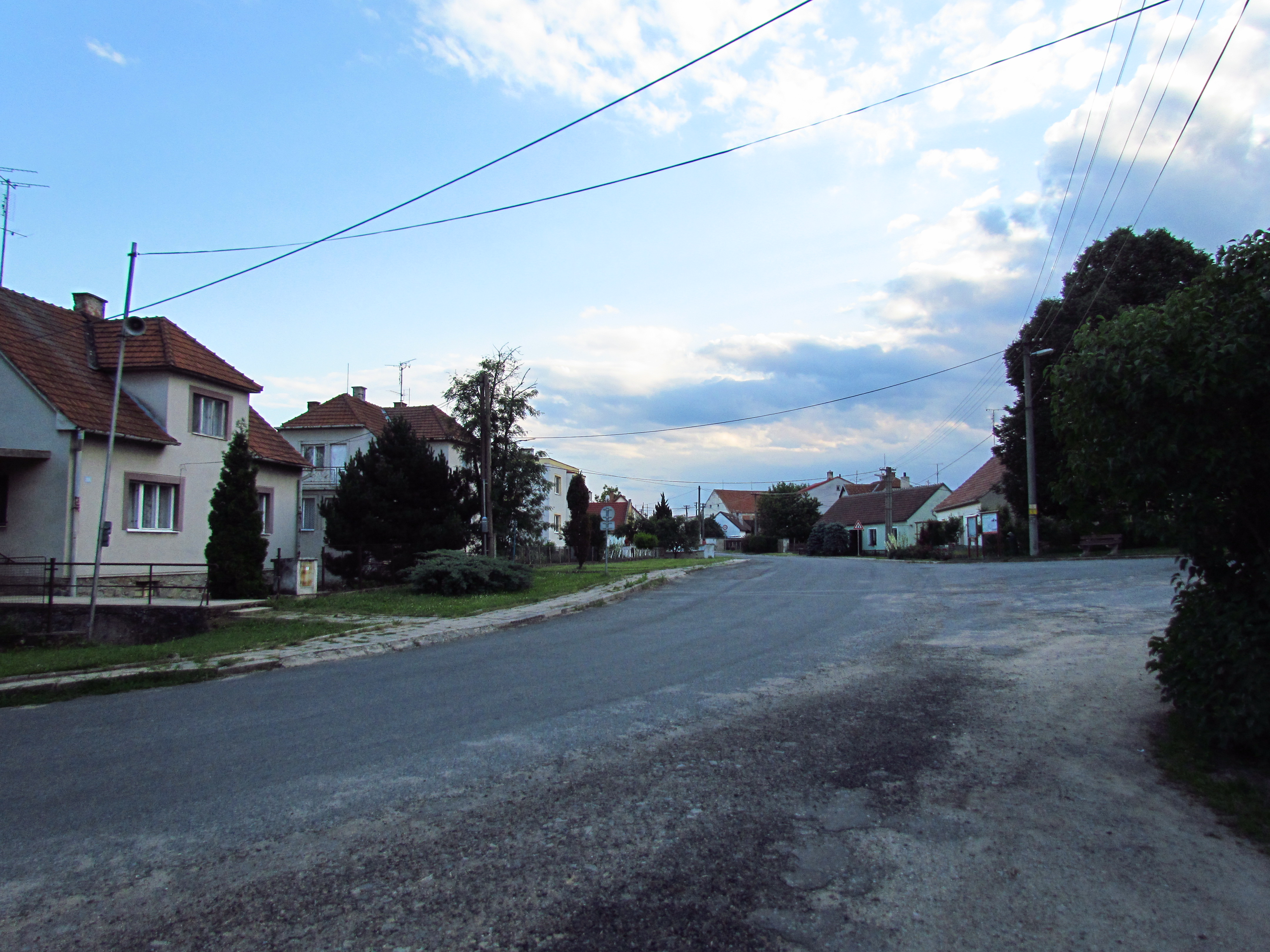 Road in Slatina, Znojmo District.